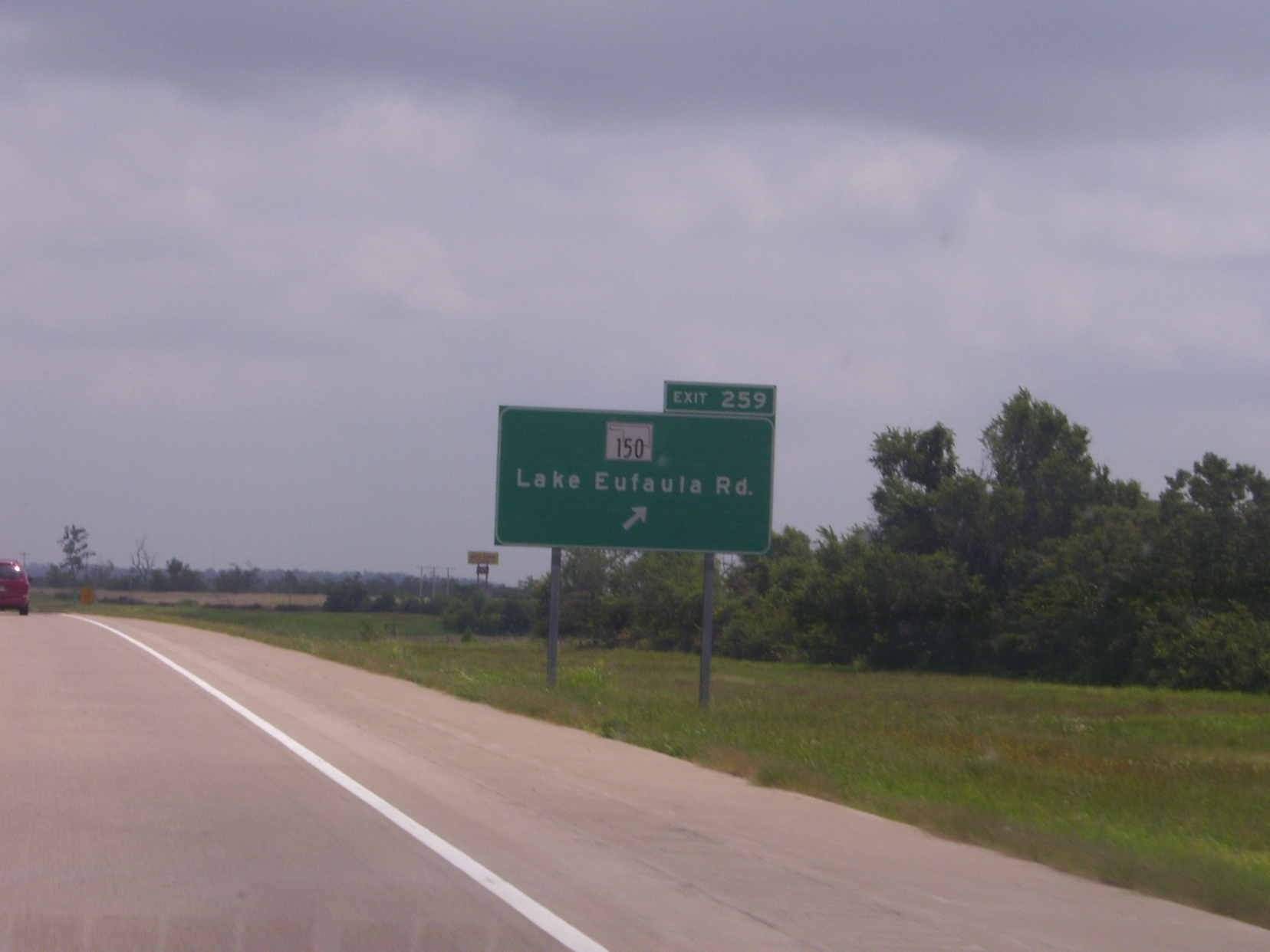 Signage for I-40 Exit 259, near Lake Eufaula in eastern Oklahoma.